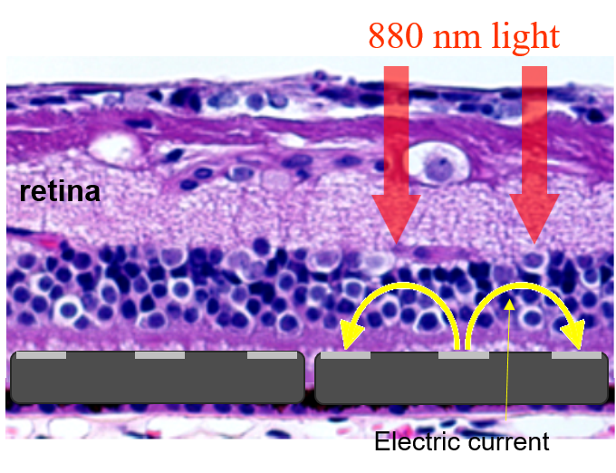 Diagram of a subretinal photovoltaic array converting NIR light into electric current to stimulate the inner retinal neurons.